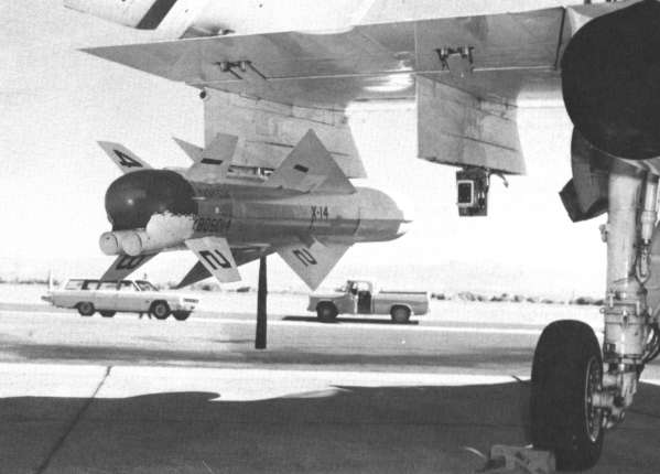 A North American XAGM-53A Condor air-to-surface missile munted on a U.S. Navy Grumman A-6A Intruder, at the U.S. Naval Weapons Center China Lake, California (USA).